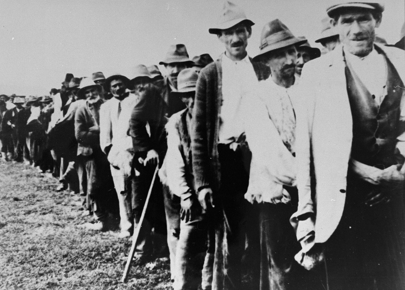 Serbs and Gypsies who have been rounded up for deportation are marched to the Kozara and Jasenovac concentration camps.